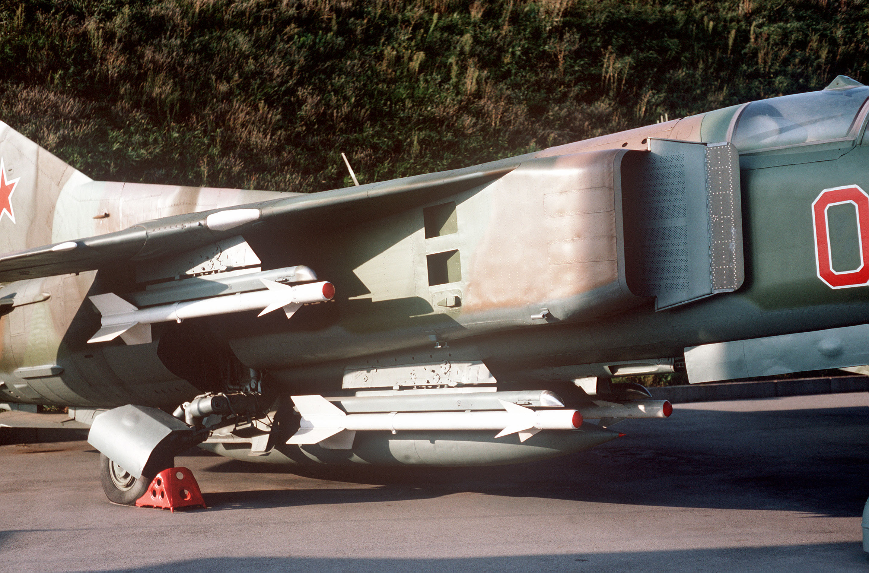 Close-in view of the right midsection of a Soviet MiG-23 Flogger B fighter aircraft showing AAM-2 Atoll missiles attached to the undercarriage and wing pylons. The aircraft is on public display at the Memorial Complex of the Ukrainian State.